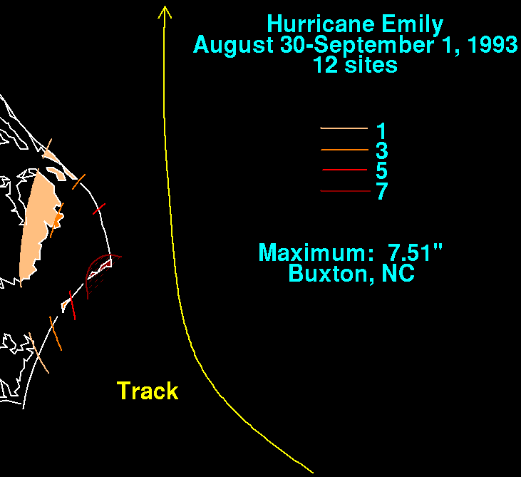 Rainfall produced by Hurricane Emily during August and September 1993.